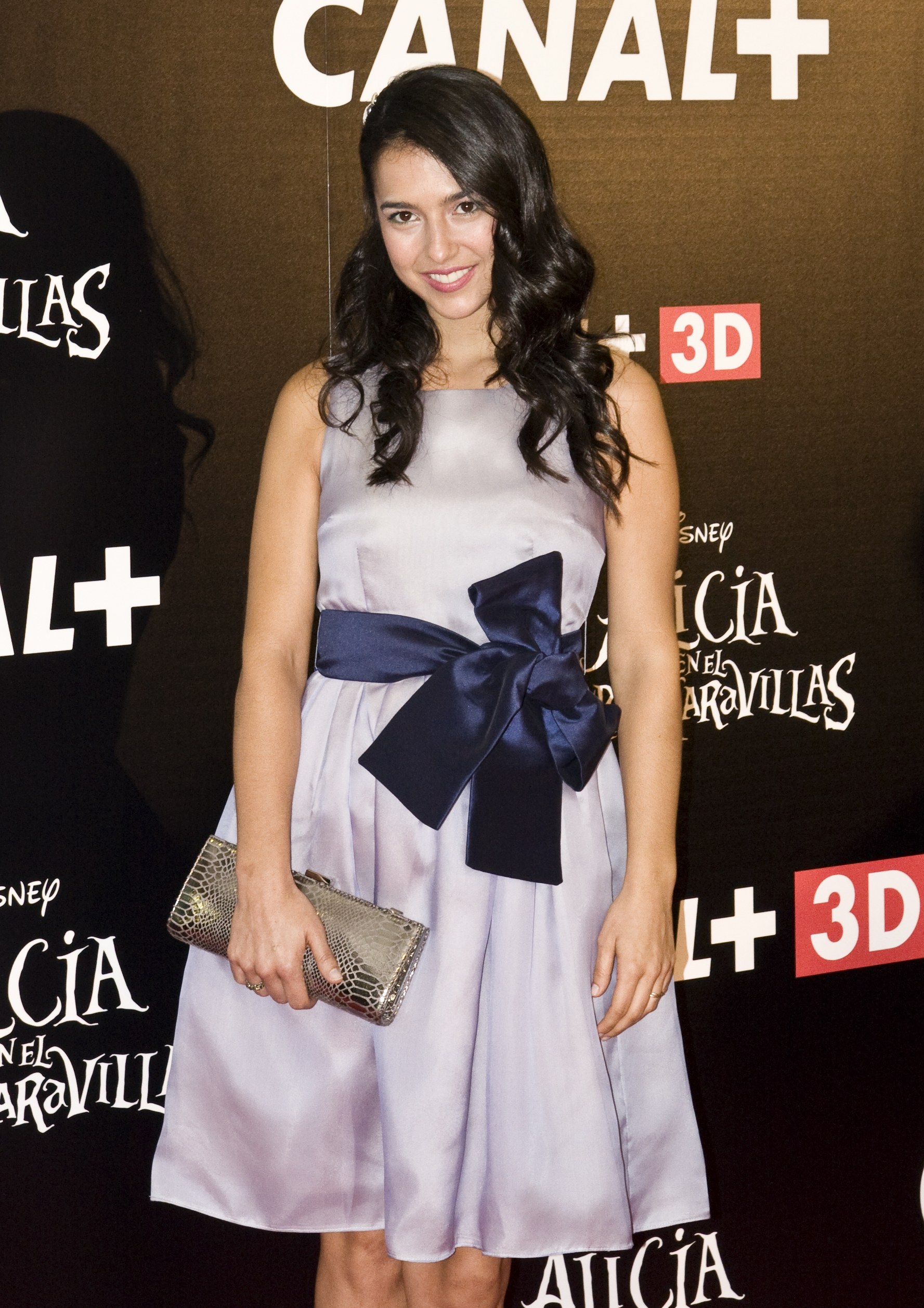 Cristina Brondo Spanish actress at the photocall of Alice in Wonderland in 2010.